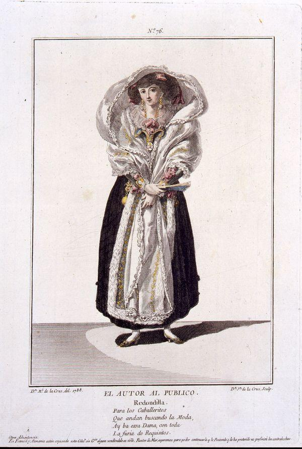 Portrait of the actress María Antonia Fernández, "La Caramba", engraving and drawn by the Cano y Olmedilla brothers.